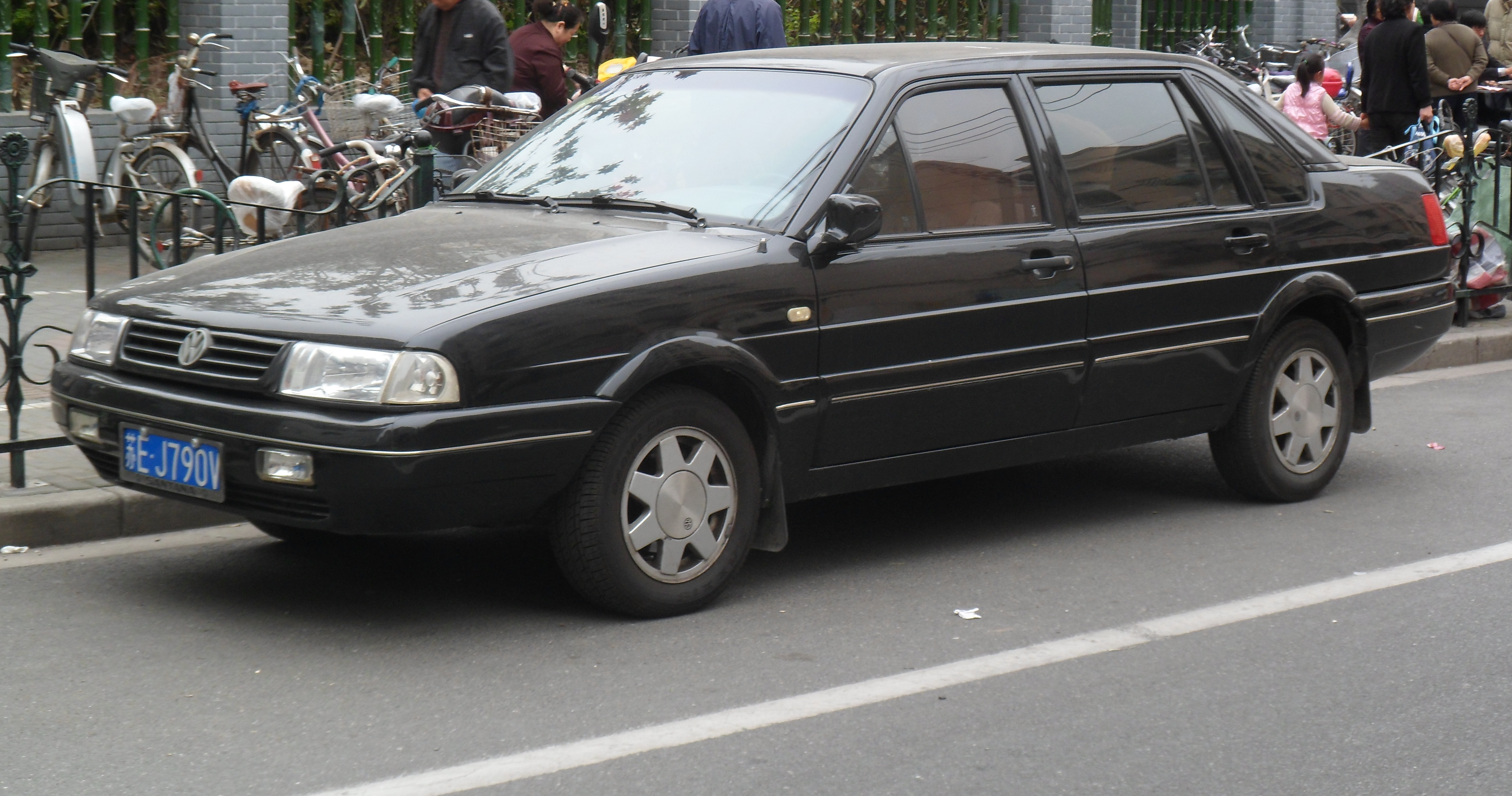 Volkswagen Santana 2000 photographed in Shanghai, China.